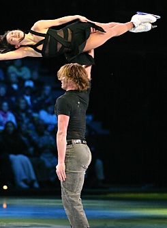 Kyoko Ina and John Zimmerman perform a "detroiter" at the 2003 Canadian Stars on Ice show in Hamilton, Ontario. Photo by me, Vesperholly 09:06, 28 July 2006 (UTC)